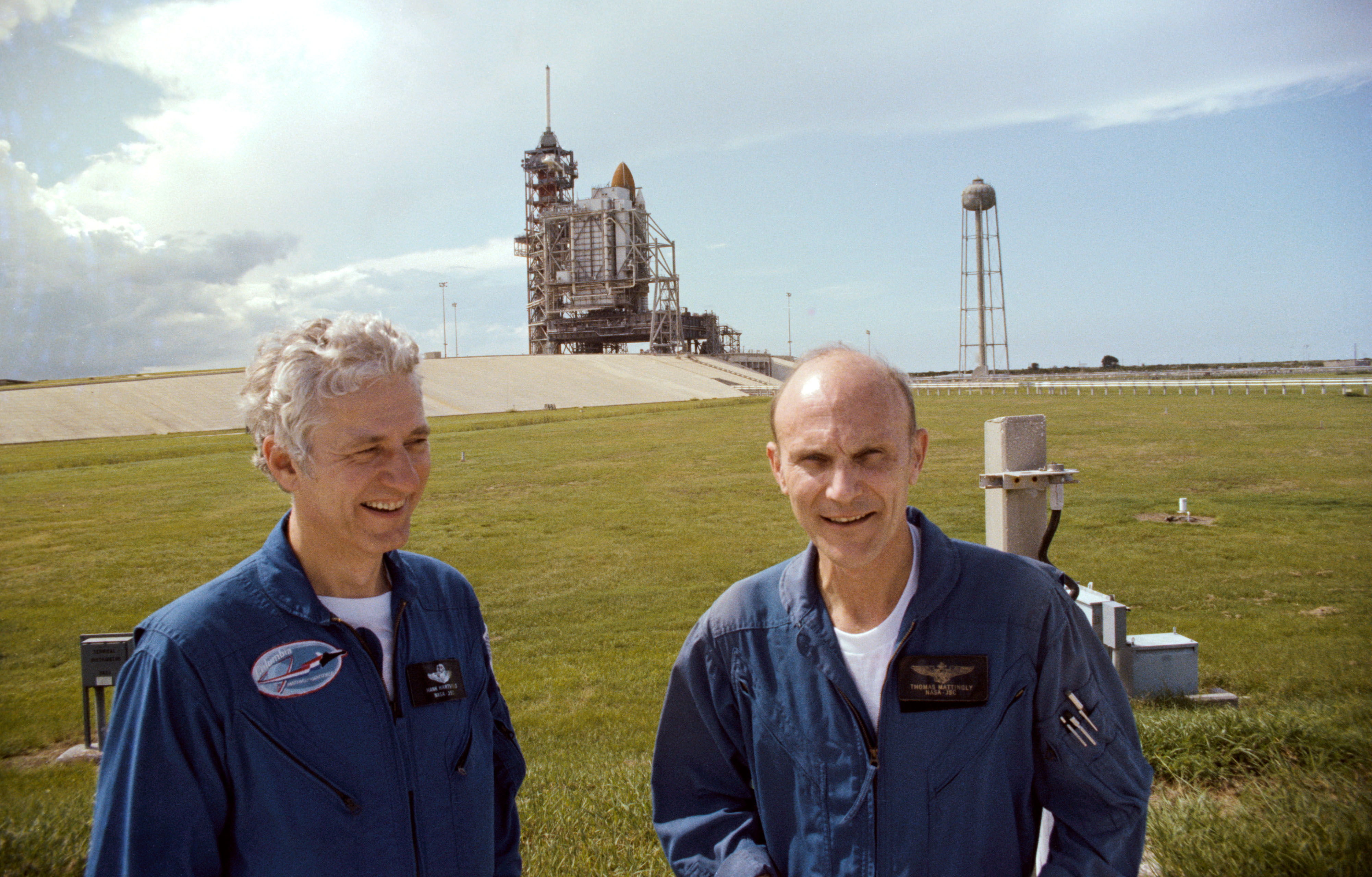 STS-4 crew takes break during CDDT for STS-4 Description: Astronauts Thomas K. Mattingly, II., right, and Henry Hartsfield, Jr. pose for news photographers in front of the Space Shuttle vehicle during break in the countdown demonstration test (CDDT) for STS-4.